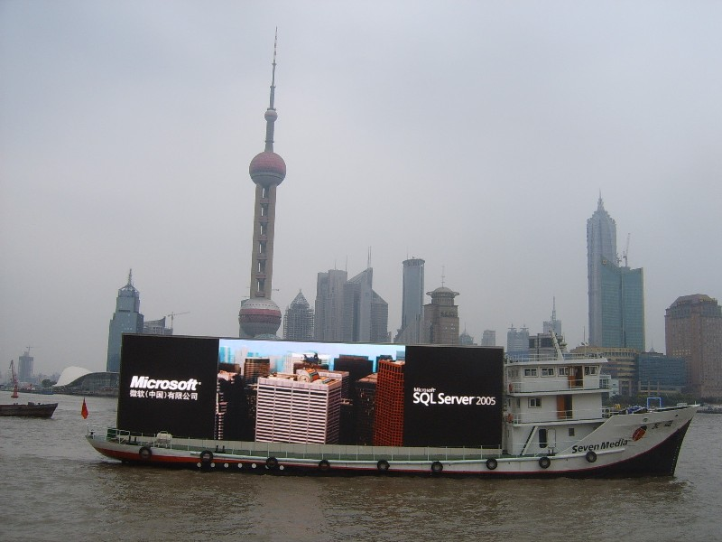 Microsoft SQL Server advertisement in Shanghai